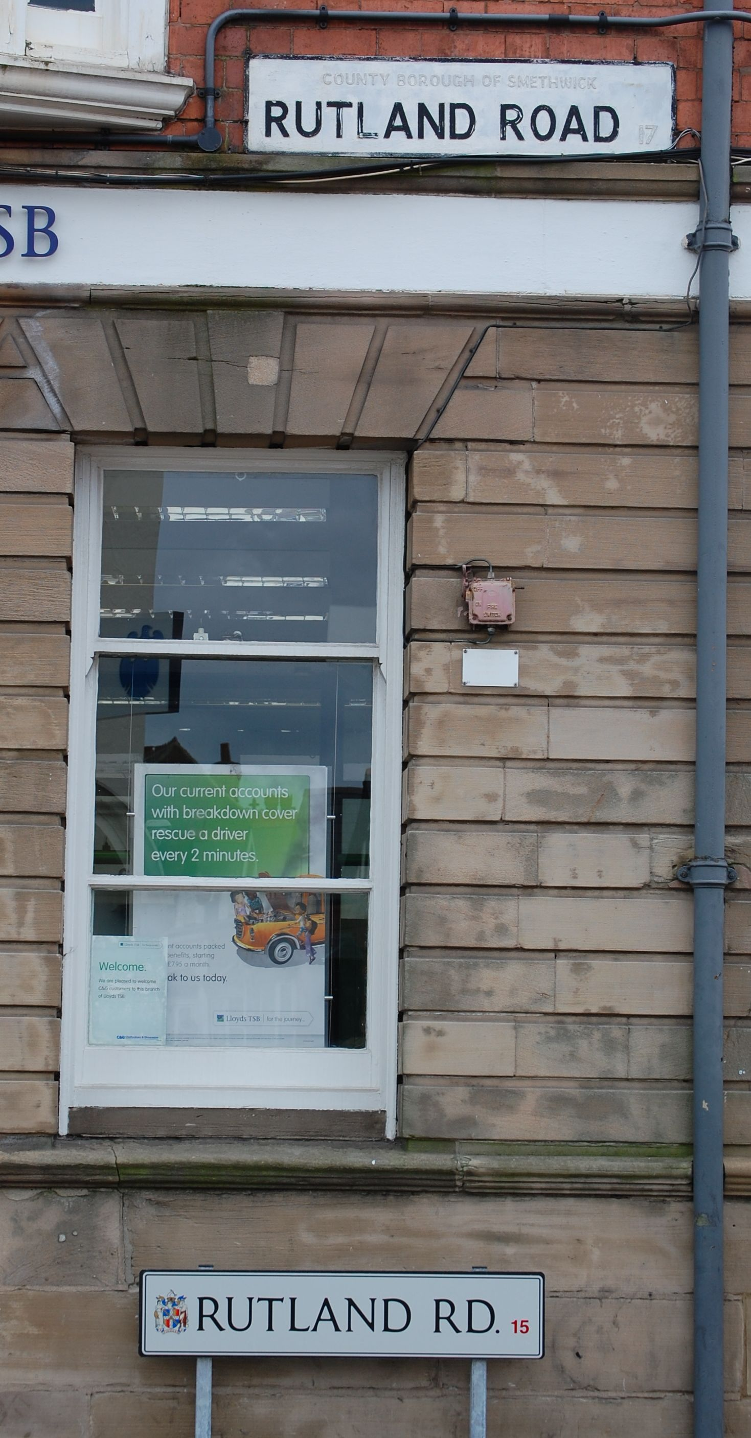 Two street signs on the short Rutland Road, Bearwood, West Midlands, England. The lower, modern sign has a City of Birmingham crest, and the incorrect postcode B15. The upper sign has the legend "County Borough of Smethwick" painted out, along with the correct postal district 17.